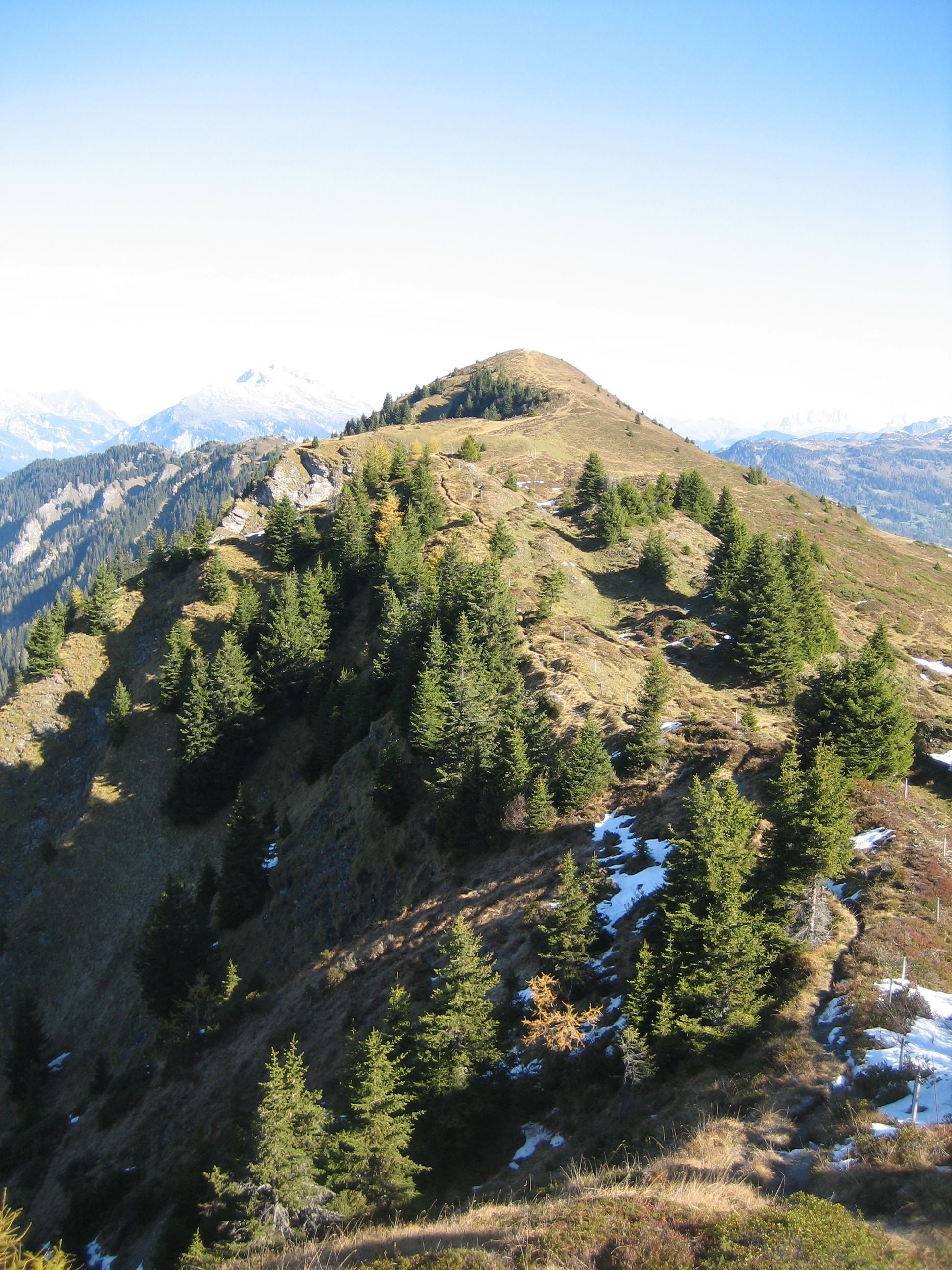 Präzer Höhi (Mutta), Cazis, Safien, Grison, Switzerland Rumantsch: Präzer Höhi (Mutta), Cazas, Stussavgia, Grischun, Svizra